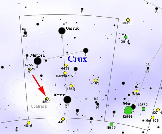 Map of NGC 4609